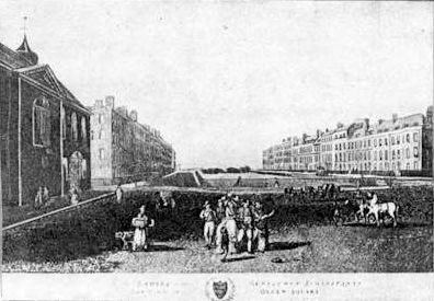 Print of Queens Square, Bloomsbury in 1787. The open space beyond goes as far as Highgate and Hampstead.)